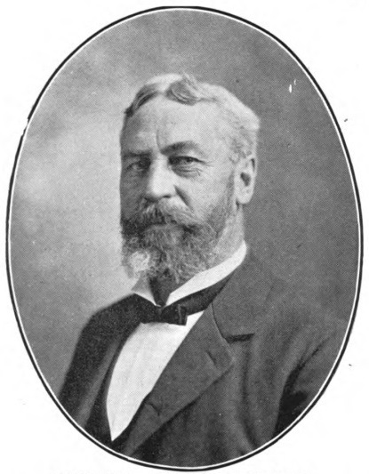 Russell J. Waters, California Congressman.